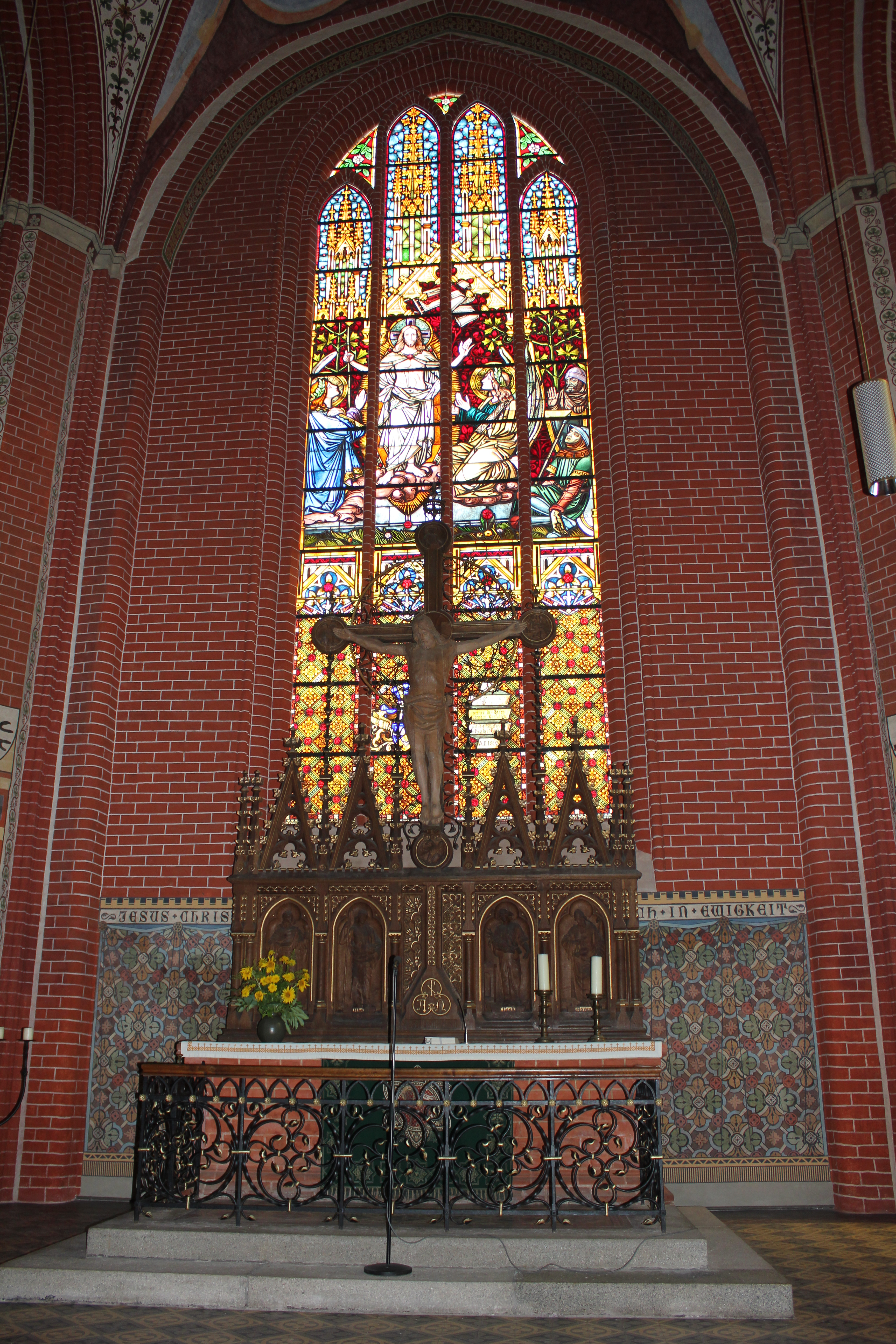 The altar from the church Sternberg in Mecklenburg